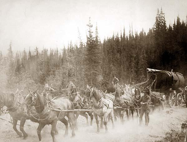 "(...) Horse team on the Overland Trail. It was created in 1900." (text from same source)